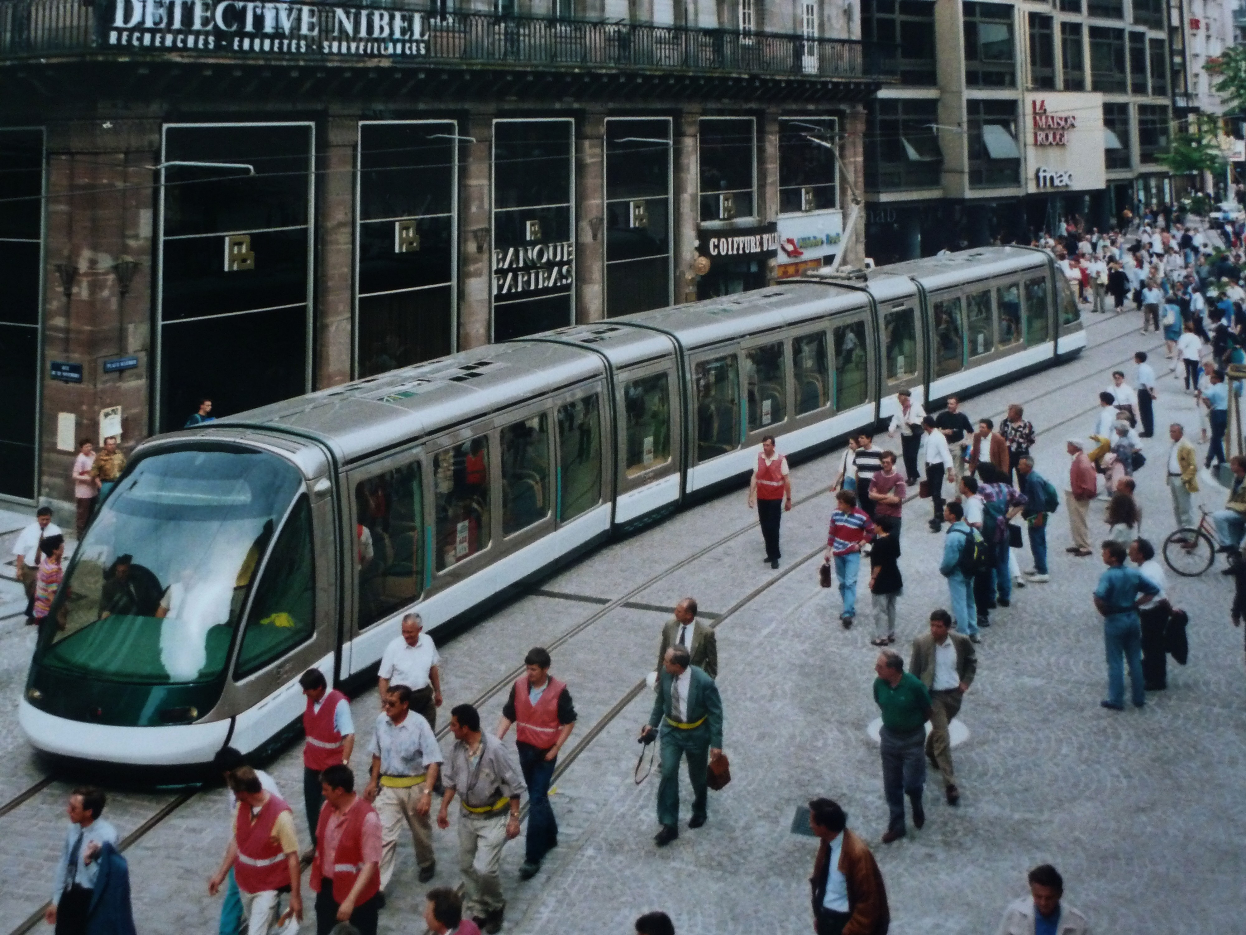 Tramway of Strasbourg author J. Neerman